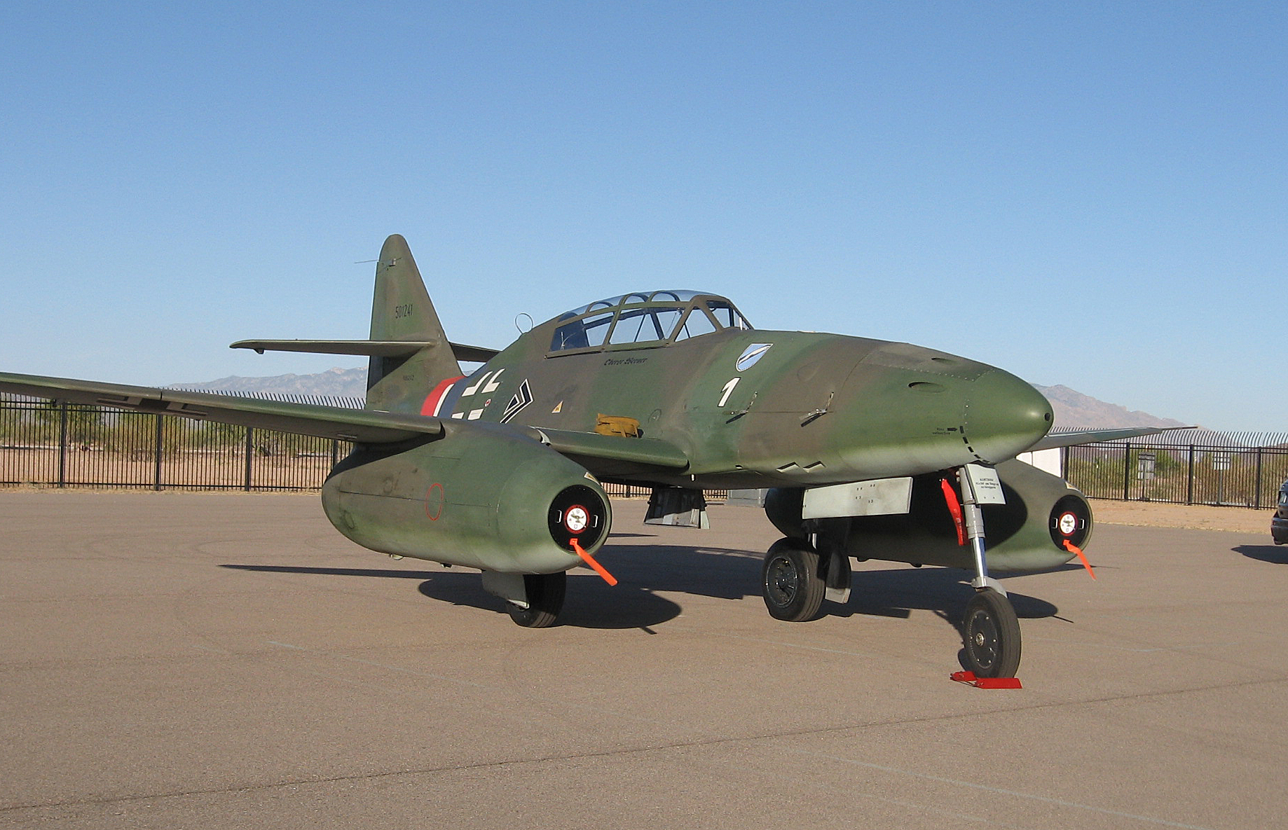 Collings Foundation's Me 262 in Marana AZ, April 19, 2013